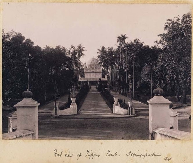 Front view of Tipu Sultan's Tomb Seringapatam, 1895, unknown photographer